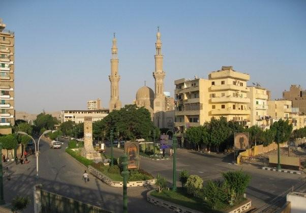 Mosque and street landscape in Minya, Egypt.